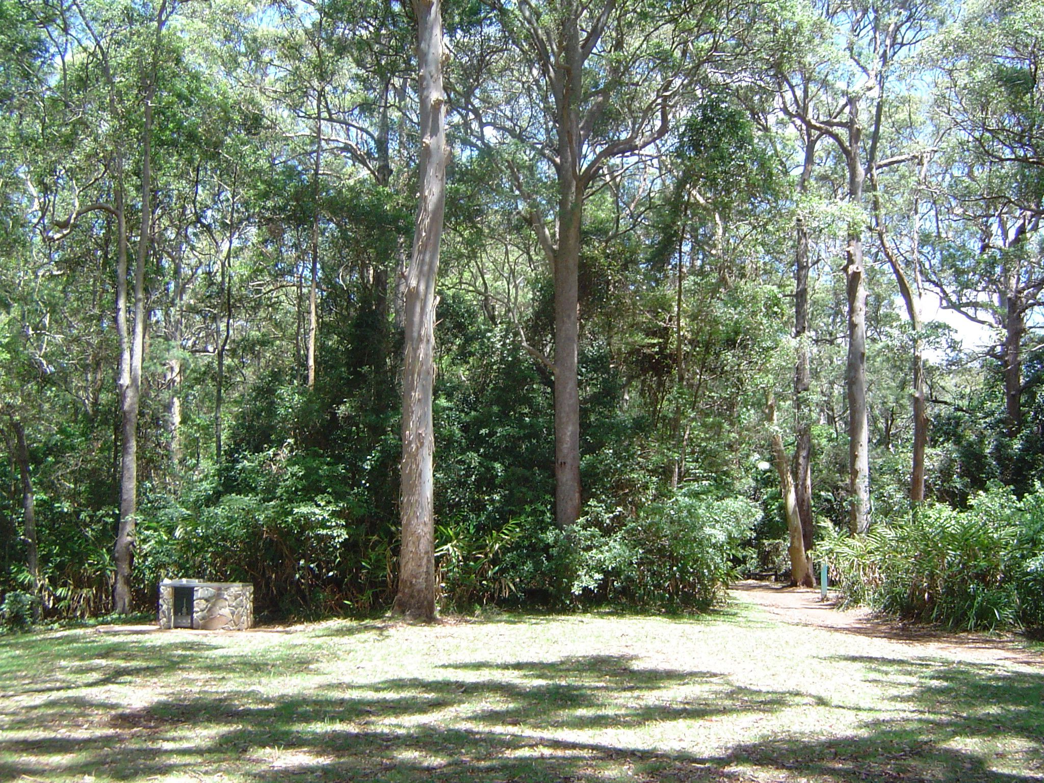 Photo looking of picnic area at The Knoll Lookout, Tamborine Mountain, Queensland, Australia.